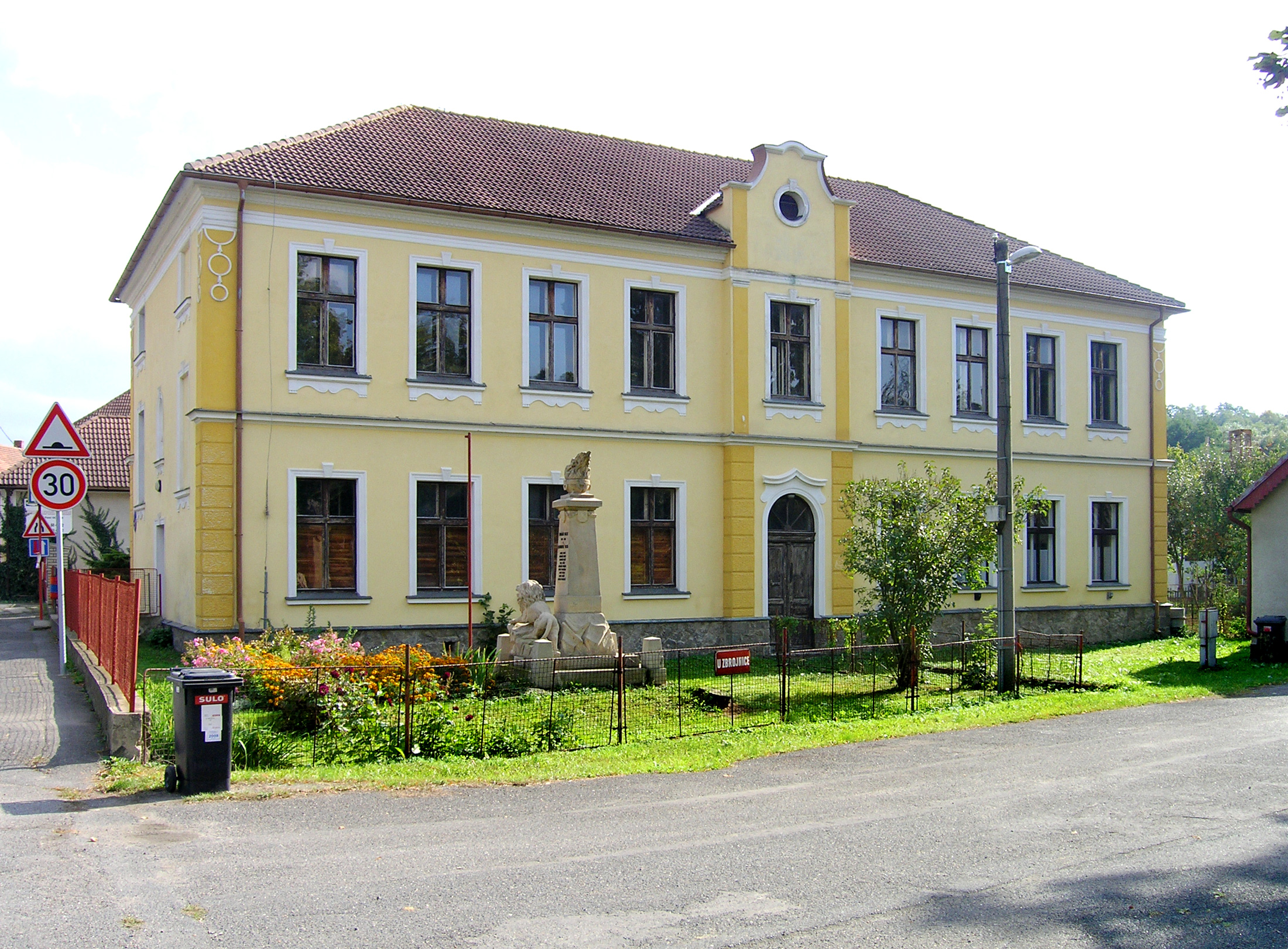 Old school in Kuří, part of Říčany, Czech Republic